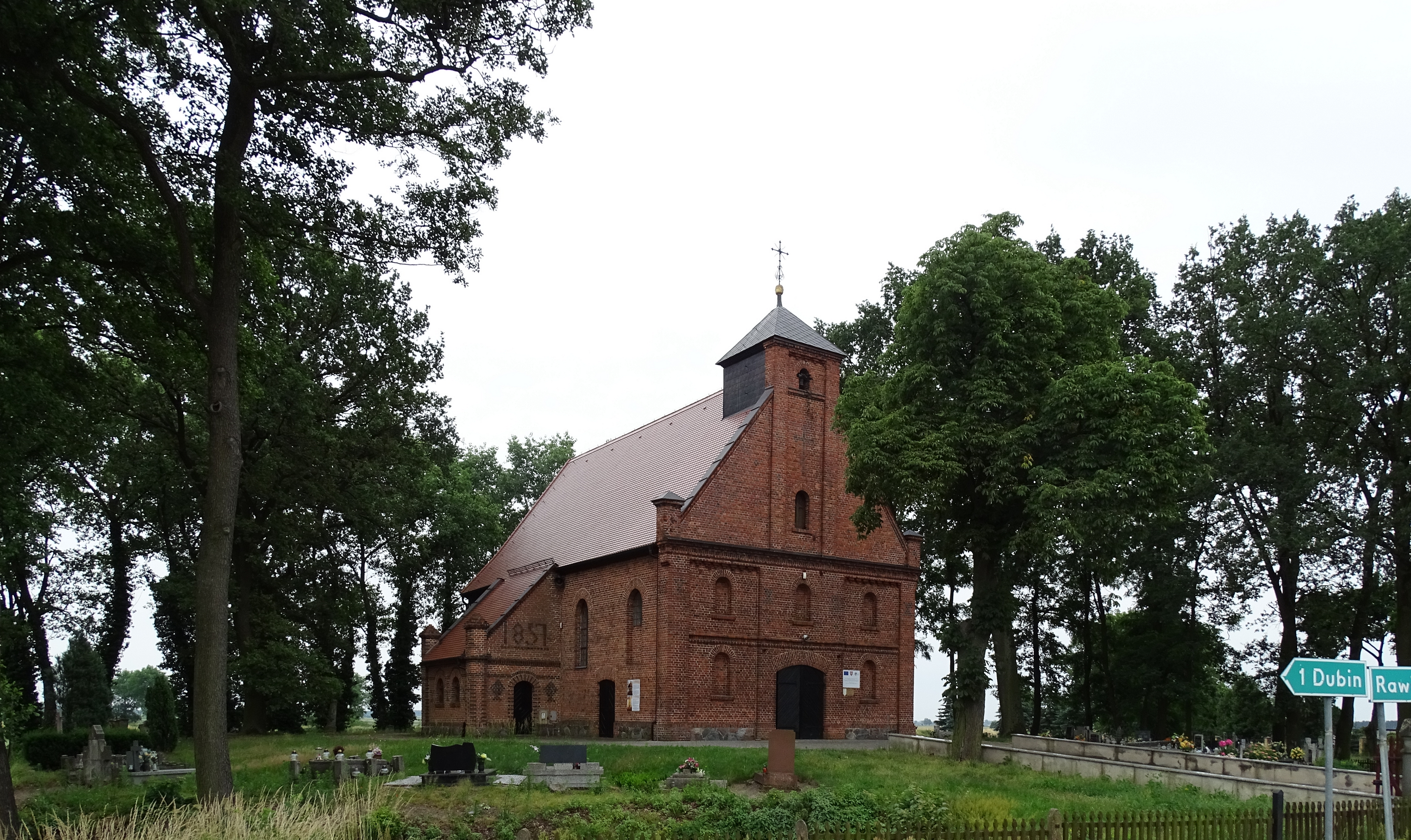 Borek, Gmina Jutrosin, Poland. A branch church belonging to the parish in Dubin. Built in the 18th century, rebuilt in the 19th.